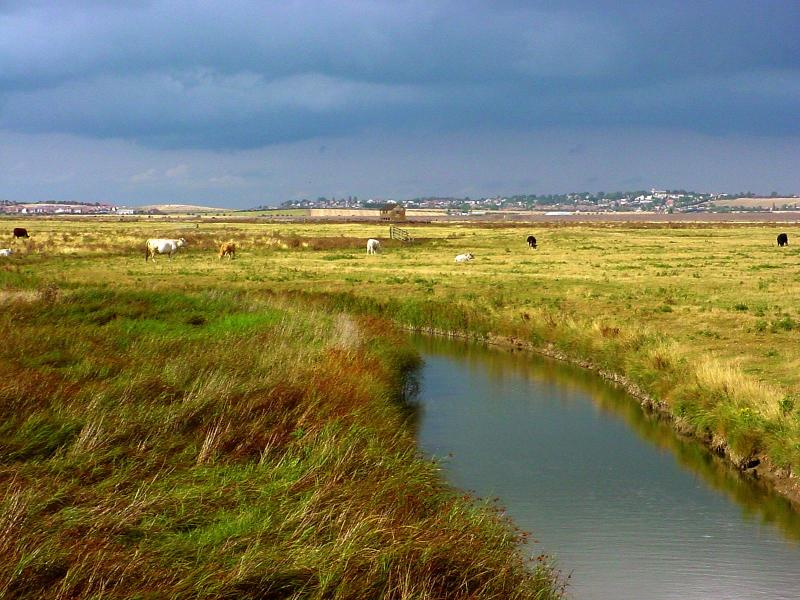 Author: Mark S Jobling